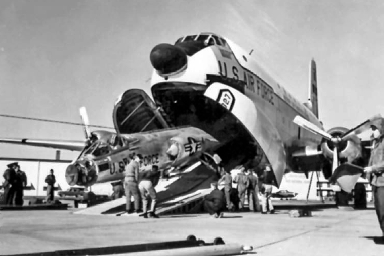 A U.S. Air Force Lockheed F-104A Starfighter from the 157th Fighter Interceptor Squadron, South Carolina Air National Guard, is loaded on aboard a Douglas C-124C Globemaster II (s/n 51-027) to be flown to Europe in response to the 1961 Berlin crisis.